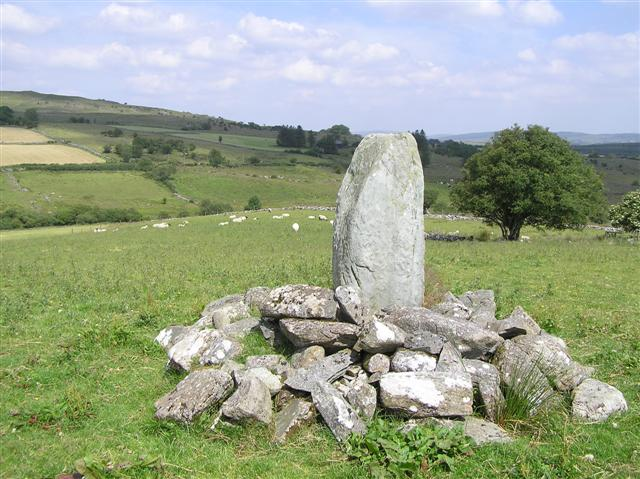 Aghascrebagh Ogham Stone, CIIC 317, near Greencastle, County Tyrone – about 500 AD. Unfortunately most of the ancient carvings have been rubbed off by cows and I was struggling to make any of the markings out. An attempt to protect the stone has been made with the surrounding stones. Ogham (pronounced "Oh-m") is a script invented, according to the medieval Irish "Book of Ballymote", by Ogma, Celtic god of literature and eloquence, and consists of a series of notches and strokes placed adjacent to or crossing a midline to represent twenty letters of the alphabet. The inscription usually consists of personal or tribal names and is said to be the earliest form of the Irish language. It is usually carved along the edge(s) of a large upright stone, beginning at the base and running upward to, and over, the top, if necessary. The inscription at this site has become weather-worn and the stone was probably erected a few centuries after the birth of Christ, in the late Iron Age.